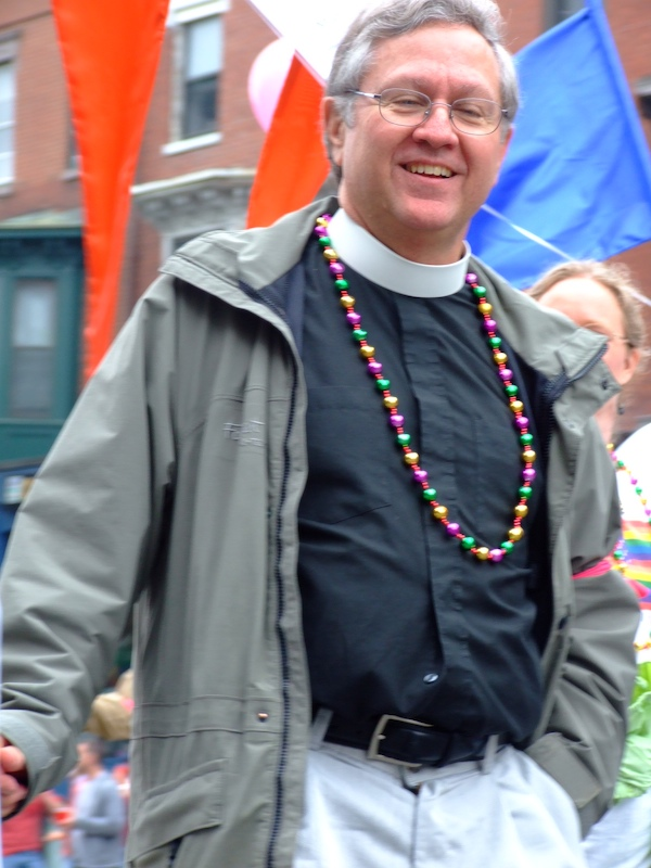 Episcopal Priest on Gay Pride in Boston